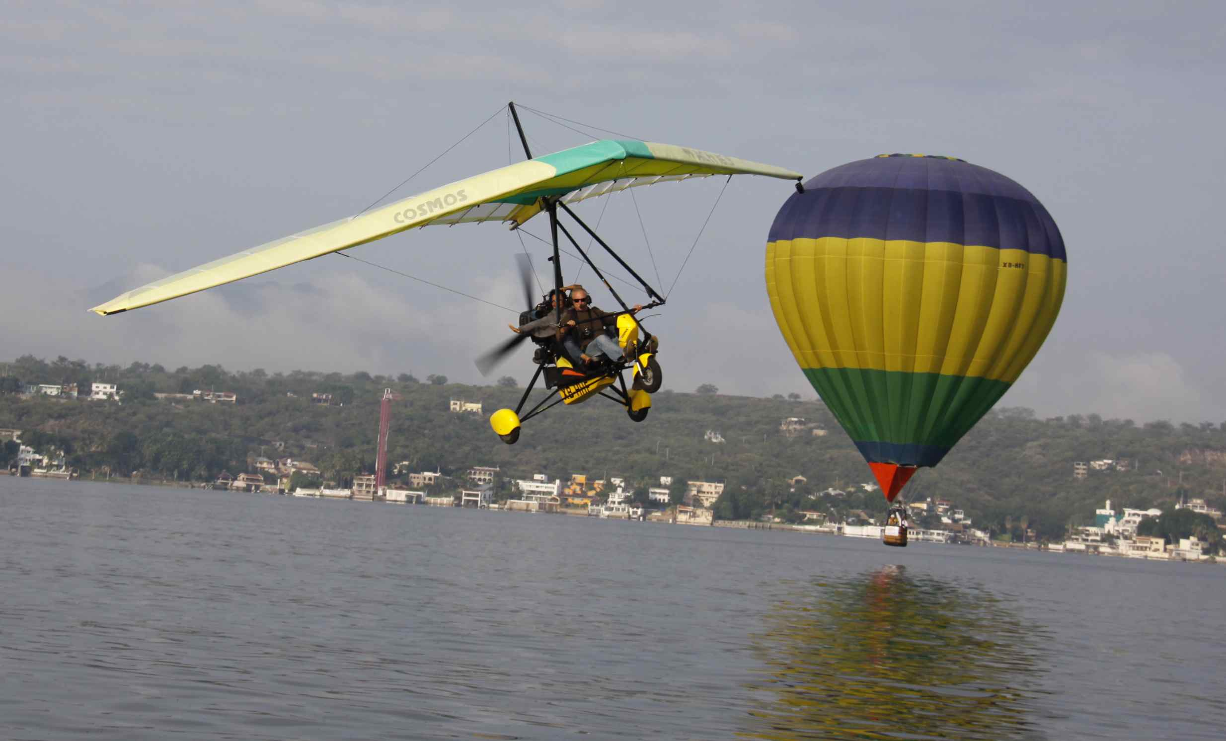 1st Press day Tequesquitengo Photo by Marco Díaz